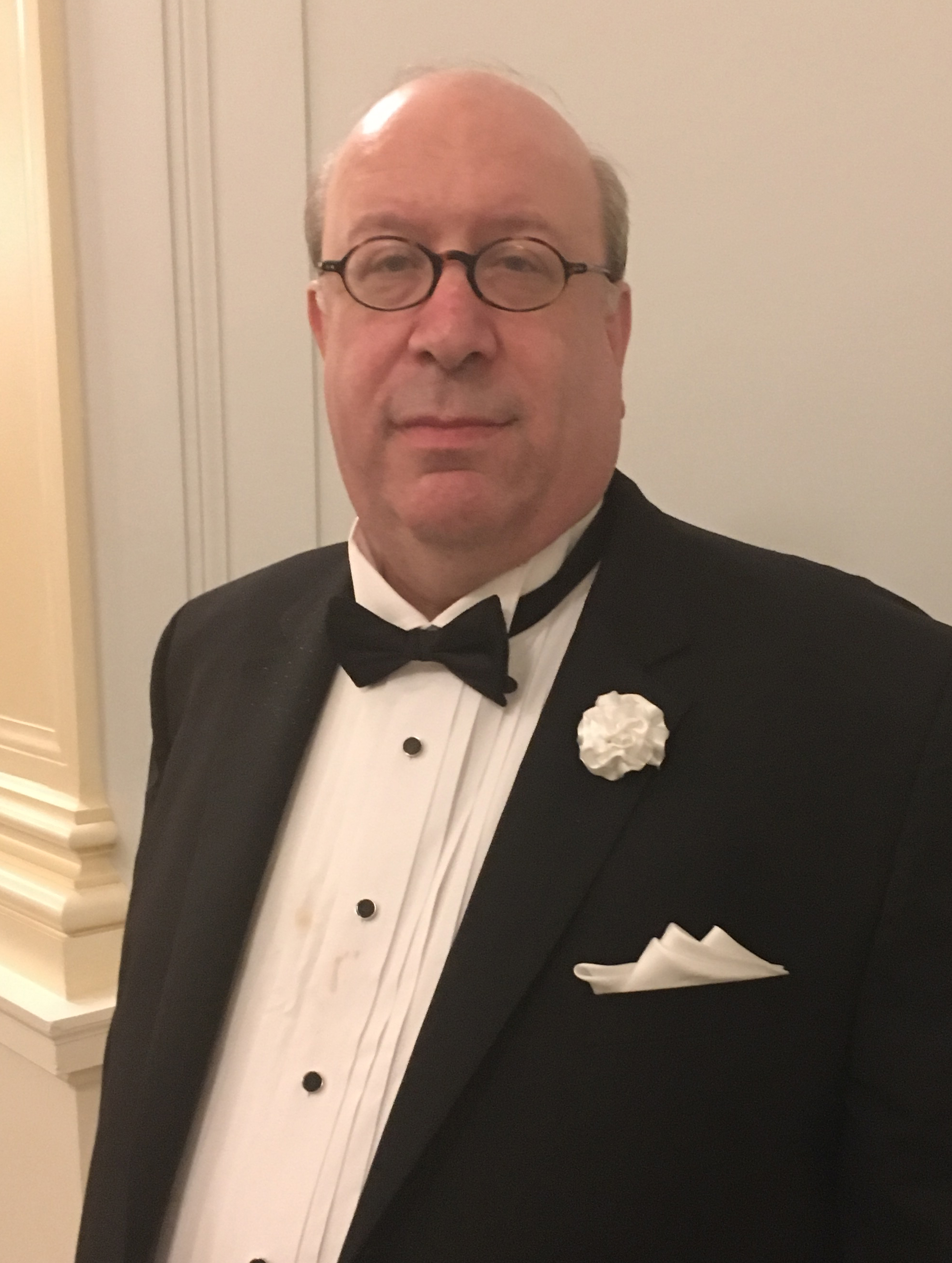 Ira Brad Matetsky at Baker Street Irregulars dinner Yale Club NYC